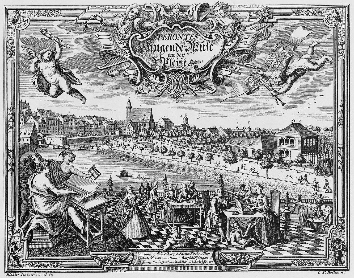 Title page to the first volume of Singende Muse an der Pleiße, a collection of strophic songs published in Leipzig in 1736, by "Sperontes", Johann Sigismund Scholze